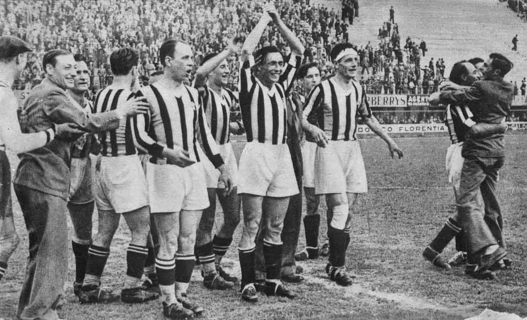 Florence (Italy), Giovanni Berta Stadium, June 2, 1935. F.B.C. Juventus' footballers celebrates their 7th Scudetto — the 5th in a row — at the end of away victory versus A.C. Fiorentina (0-1), Matchday 30 of Italian League 1934–35 Serie A.